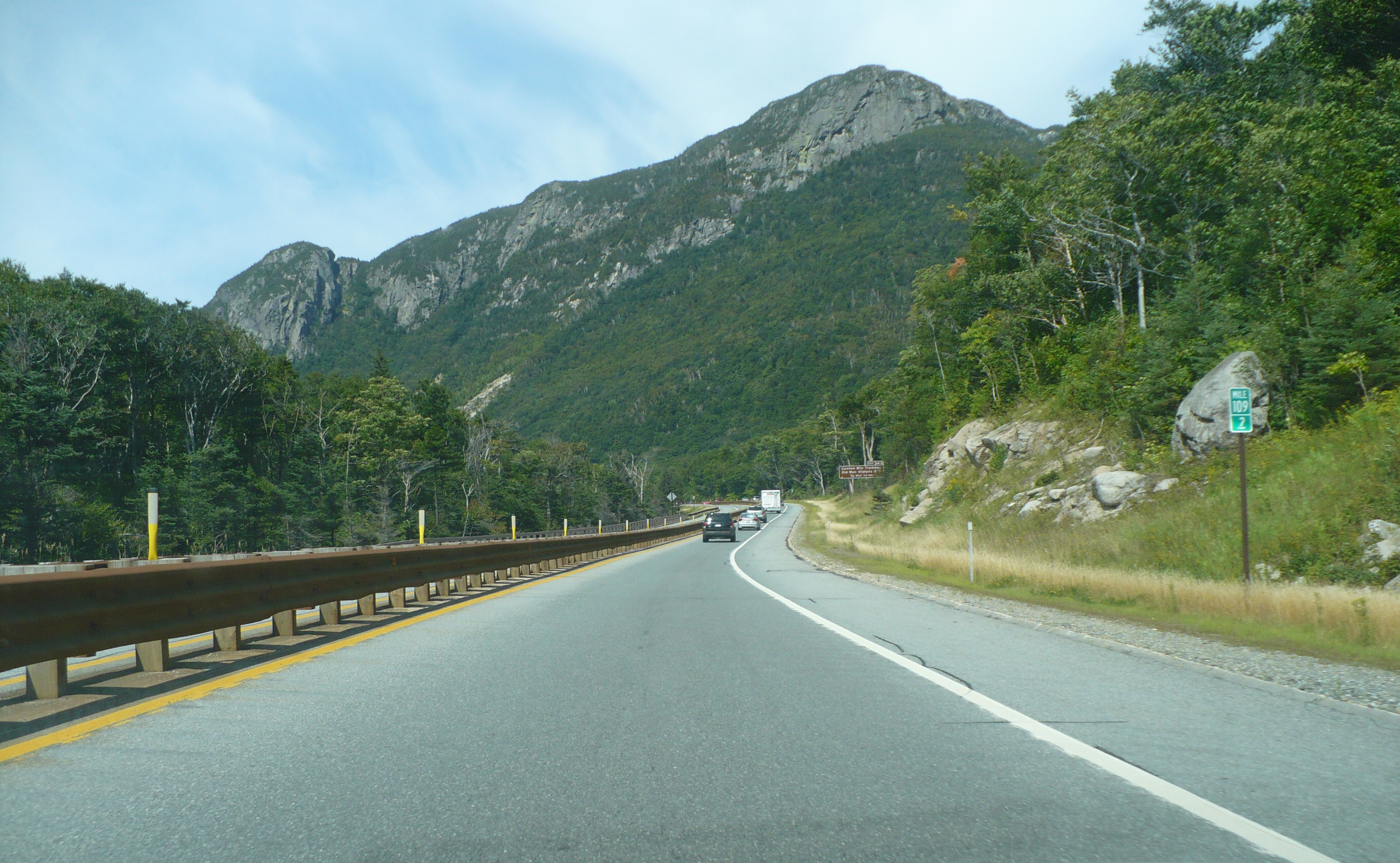 Interstate 93/US Route 3 in Franconia Notch